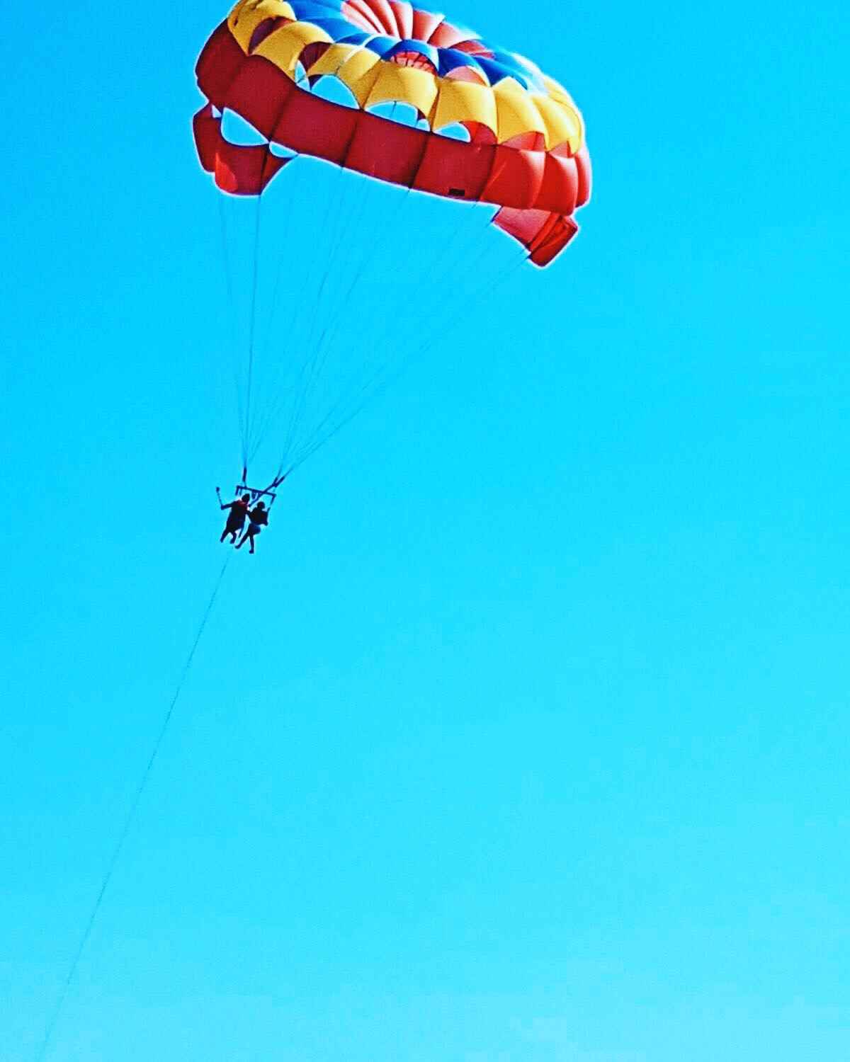 Parasailing in Alanya, Antalya.